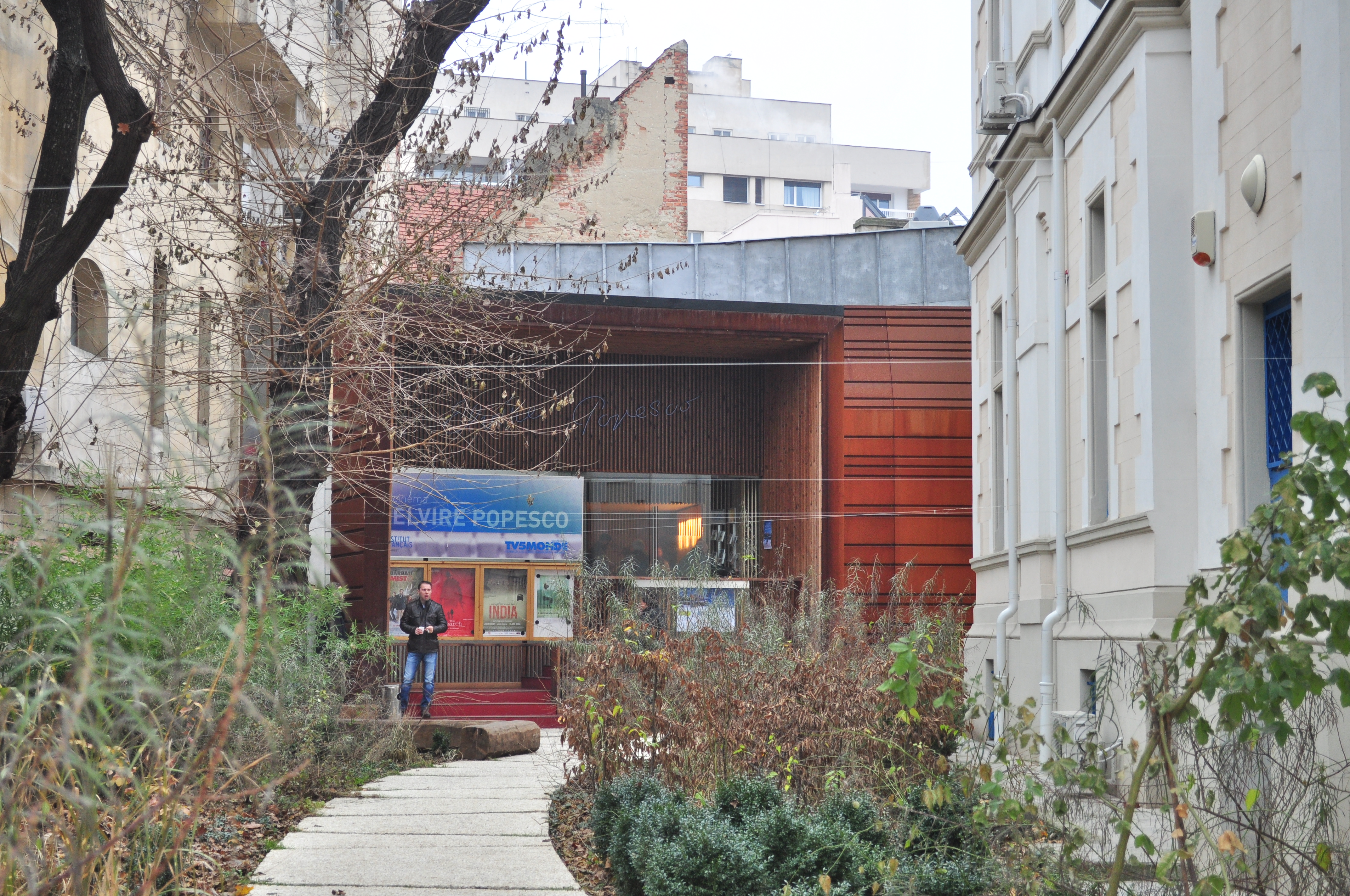 At the Institut Français, B-dul Dacia, nr. 77, Bucharest Sector 1, Romania; path to Sală Elvire Popescu.